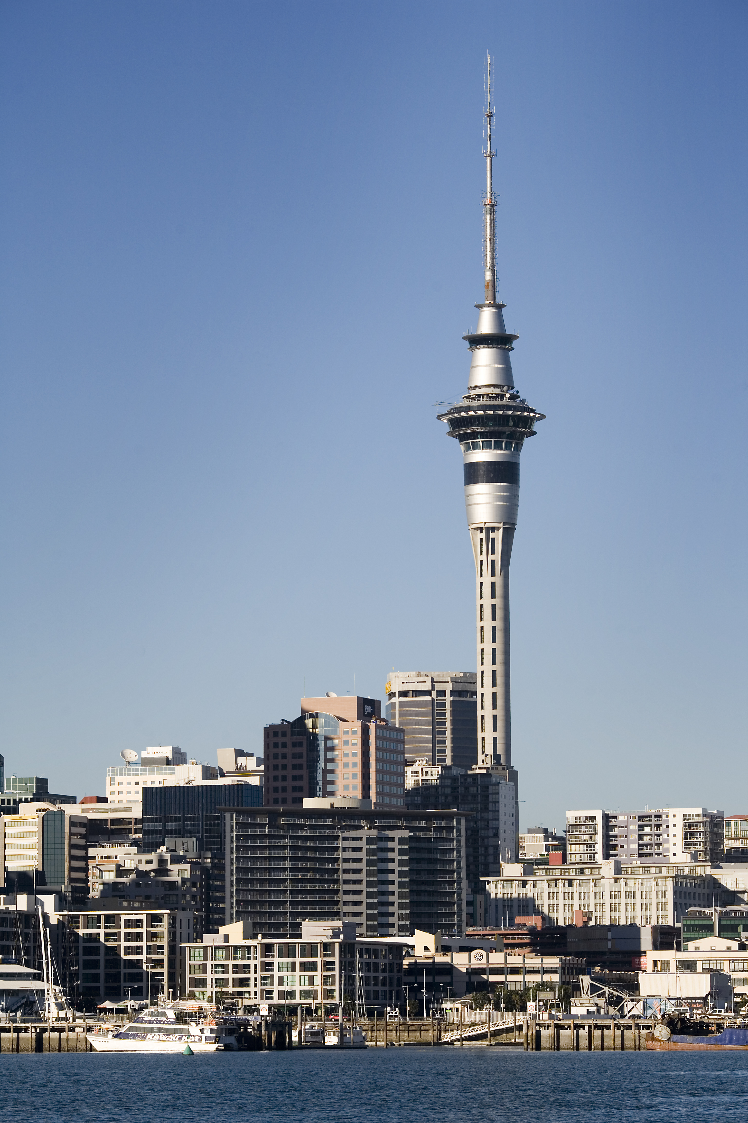 The Waitemata Harbour, the Ferry dock and the Skytower on the back, Auckland skyline, New Zealand